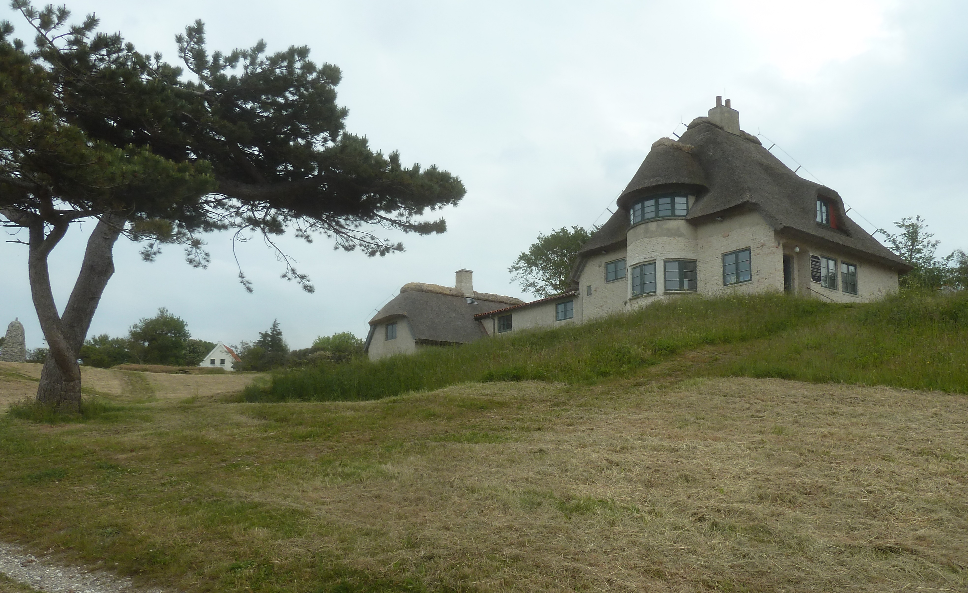 Knud Rasmussen House in Hundested, Denmark